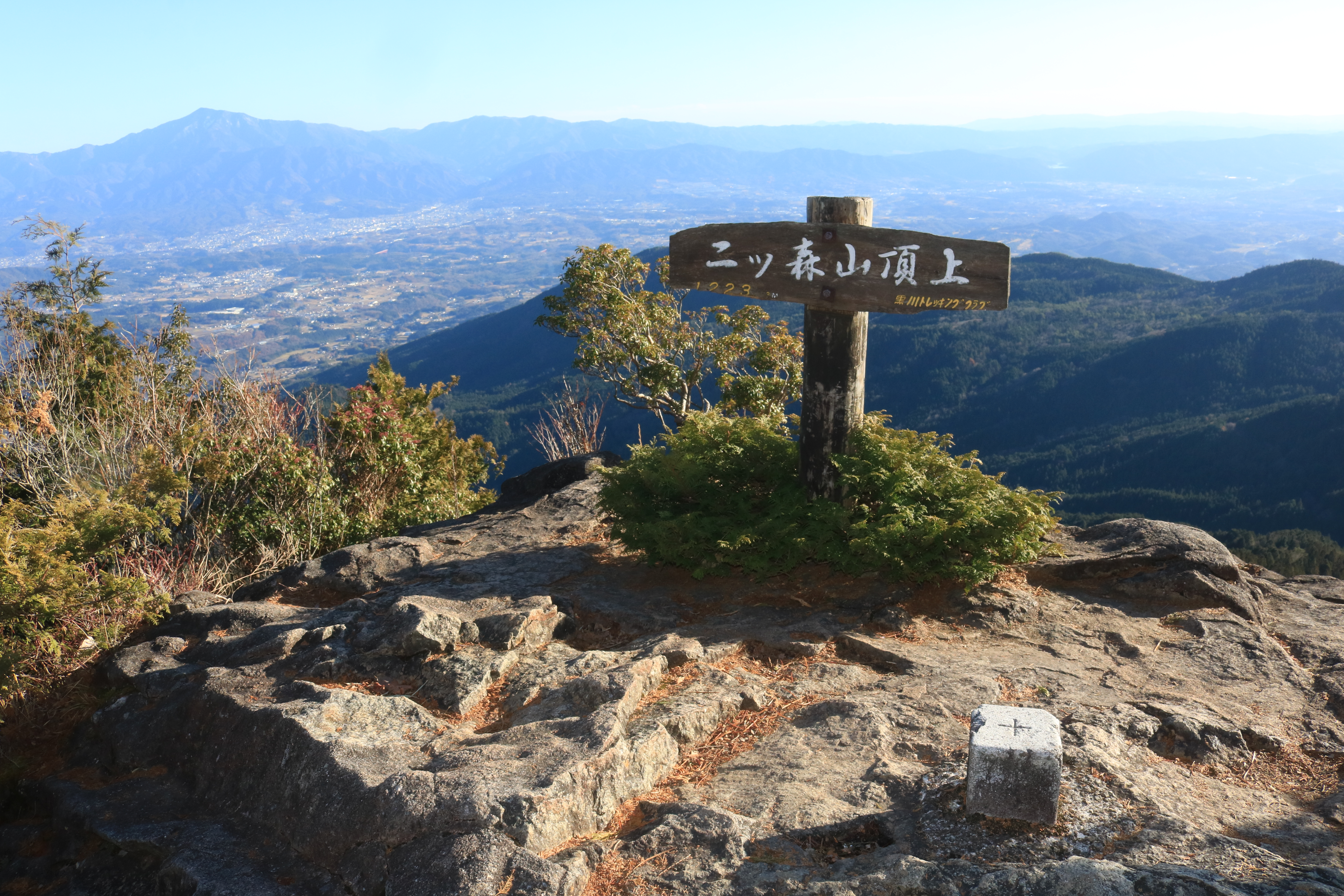 Rock on the top of Mount Futatsumori in Gifu Prefecture, Japan.